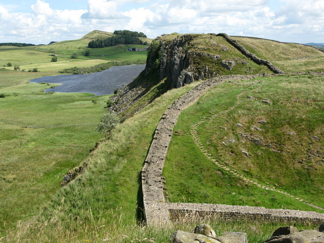 Hadrian's Wall and Highshield Crags Viewed from Milecastle 39, also in view are Crag Lough and the land rising towards Hotbank Crags in the distance.